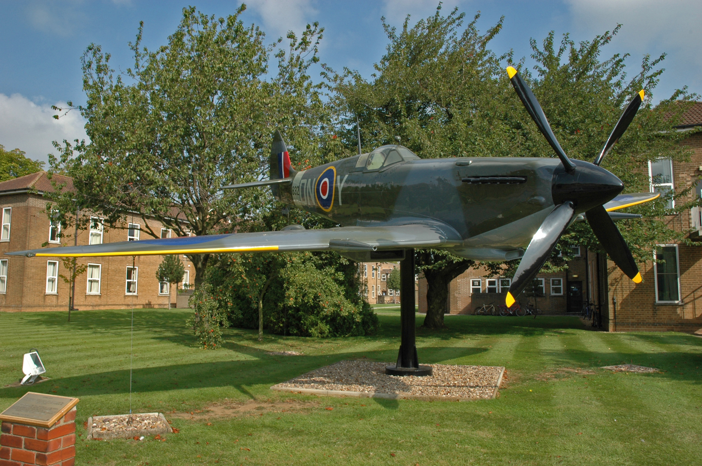 RAF Digby gate guardian. Fibreglass replica Supermarine Spitfire Mark IX.